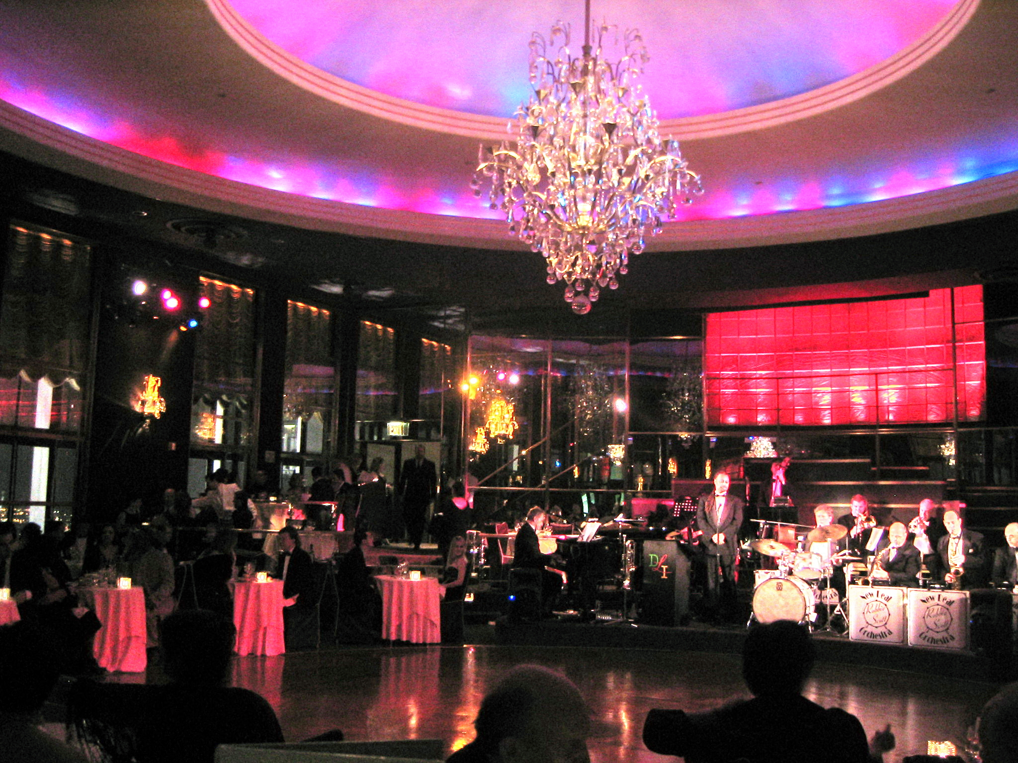 Photograph of the Rainbow Room nightclub, Rockefeller Center, New York, USA